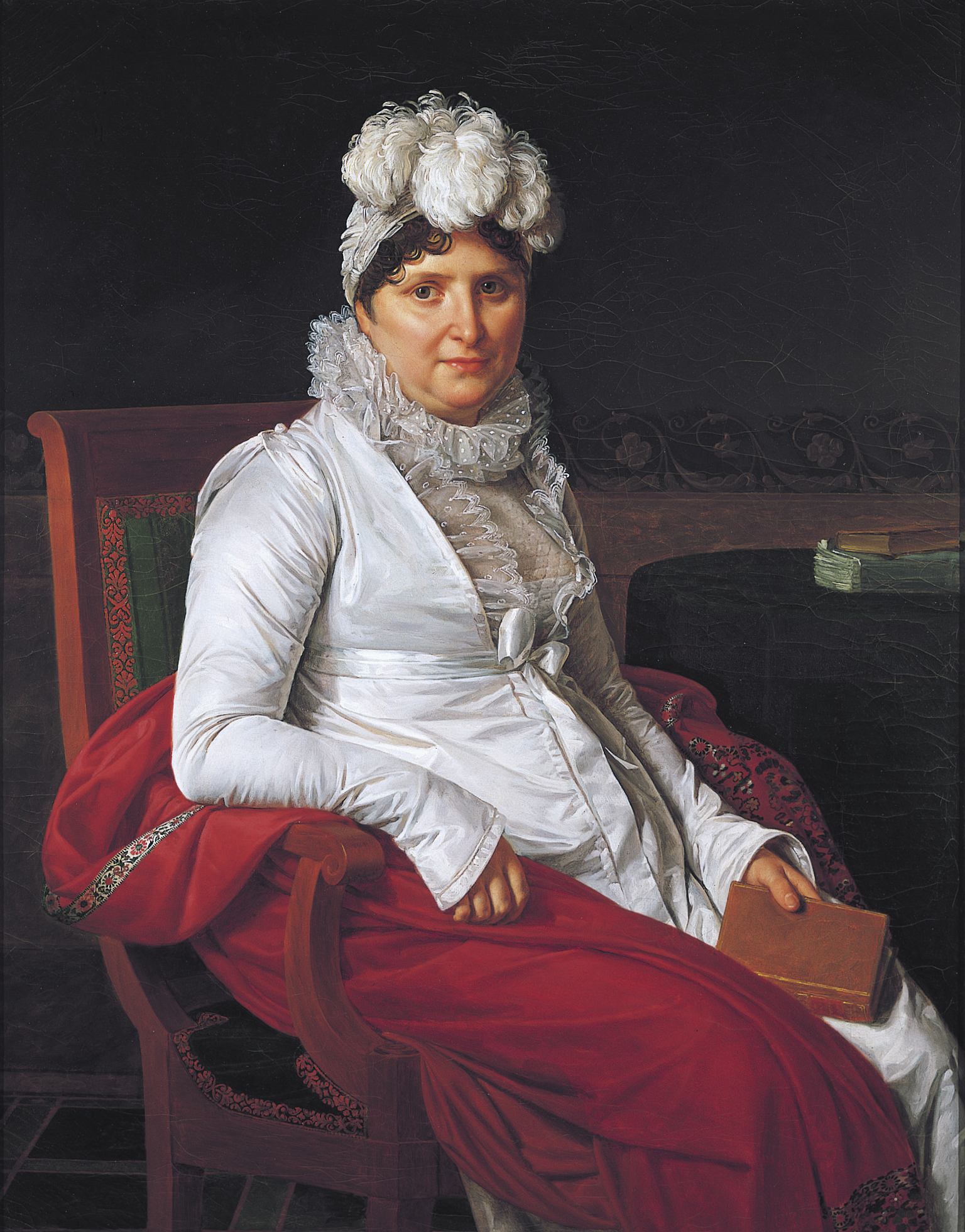 Madame Houbigant, born Nicole Adéläide Deschamps oil on canvas 106 × 83.8 cm circa 1807